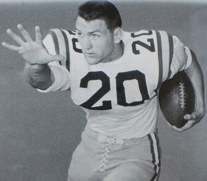 This image is a photo of Billy Cannon that was originally released in a press packet by Louisiana State University (LSU) to promote their football team. It is used in a Wikipedia article about him to demonstrate how he looked while playing football for LSU.